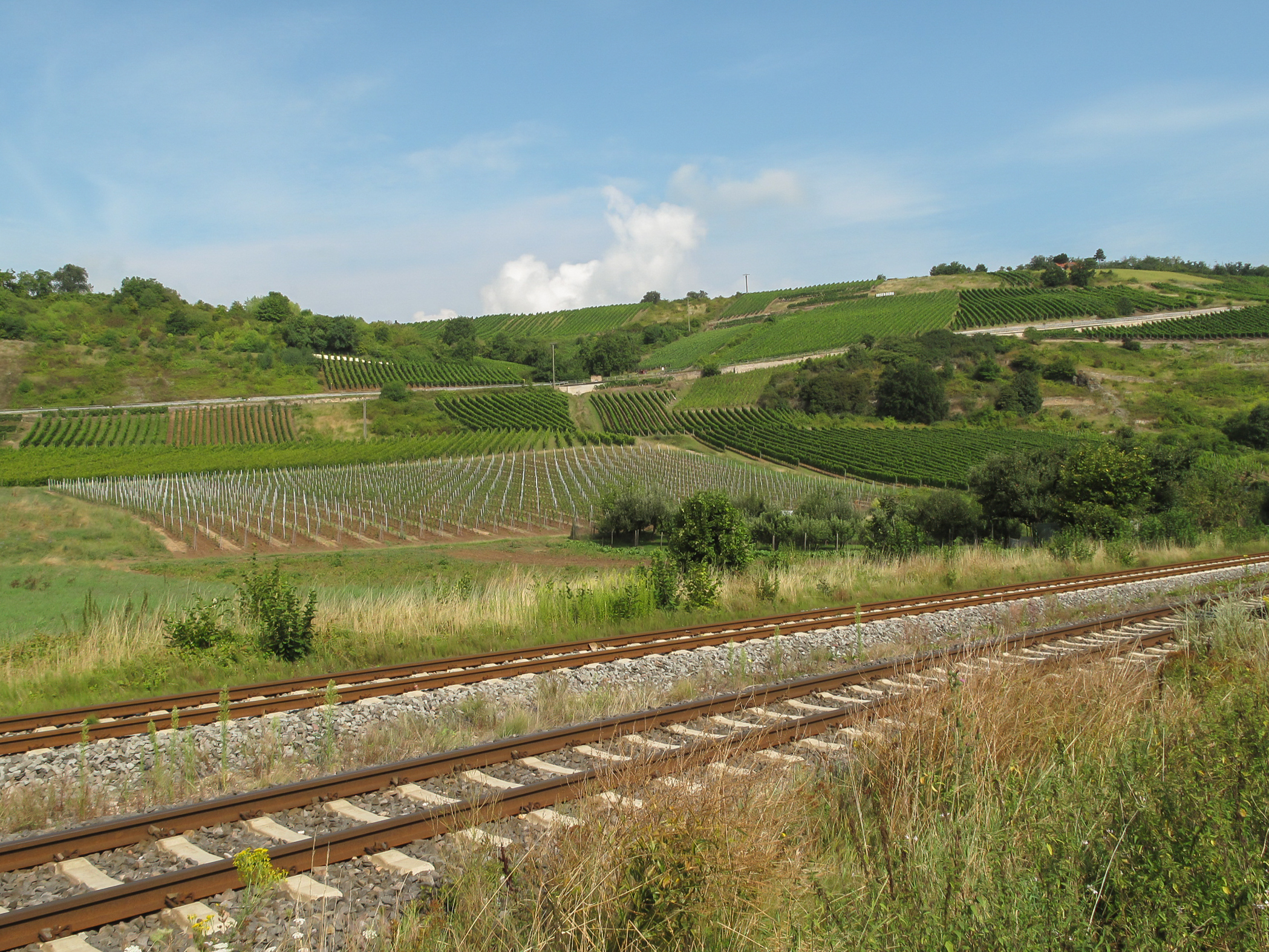 Niederhausen, panoreama near the railway